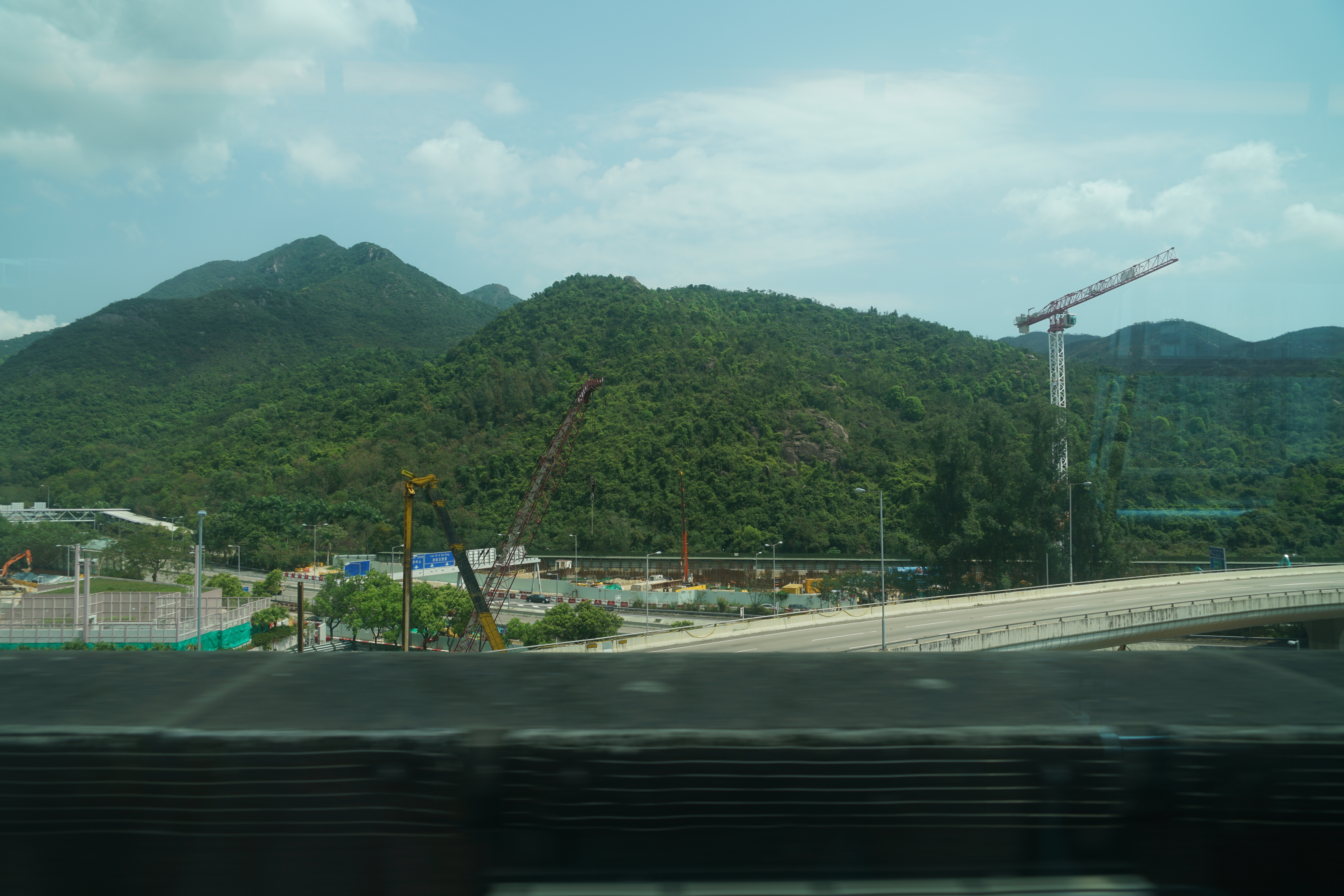 Kam Chun Court, Hong Kong.